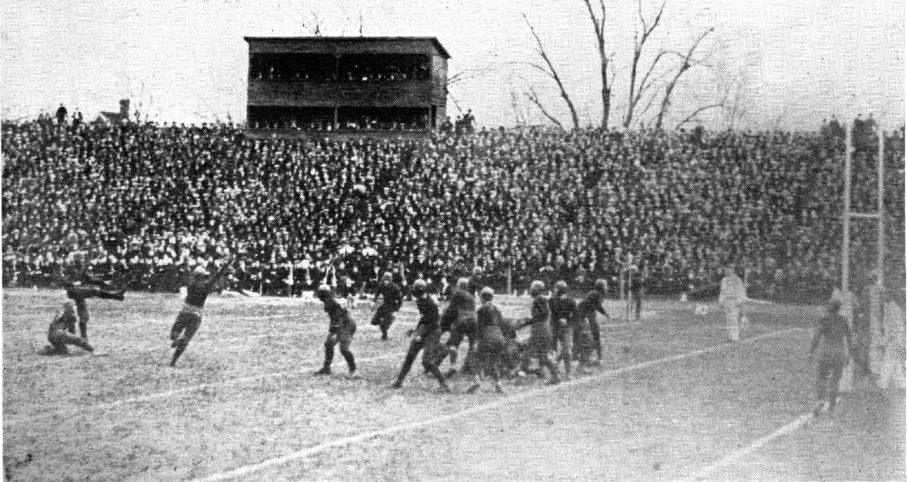 Photograph of Frank Steketee field goal against the University of Illinois, 1921